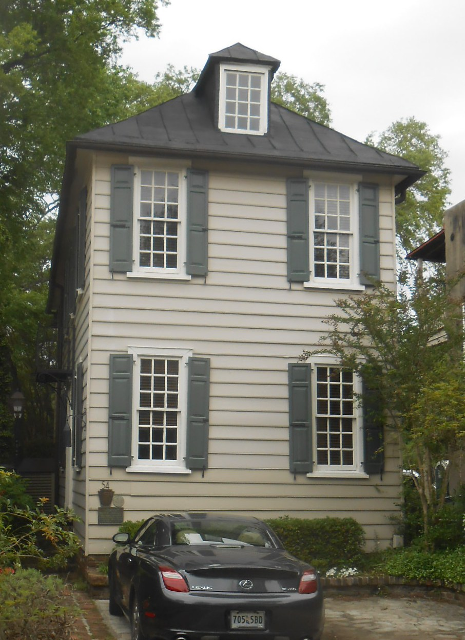 Thomas Elfe House, 54 Queen Street, Charleston, South Carolina